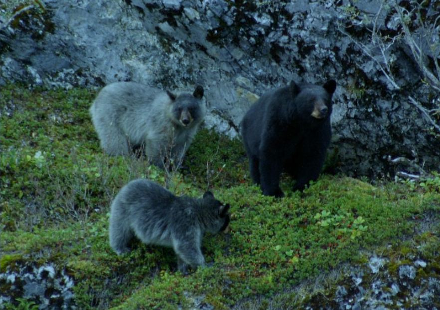 Black bear with Glacier bear cubs